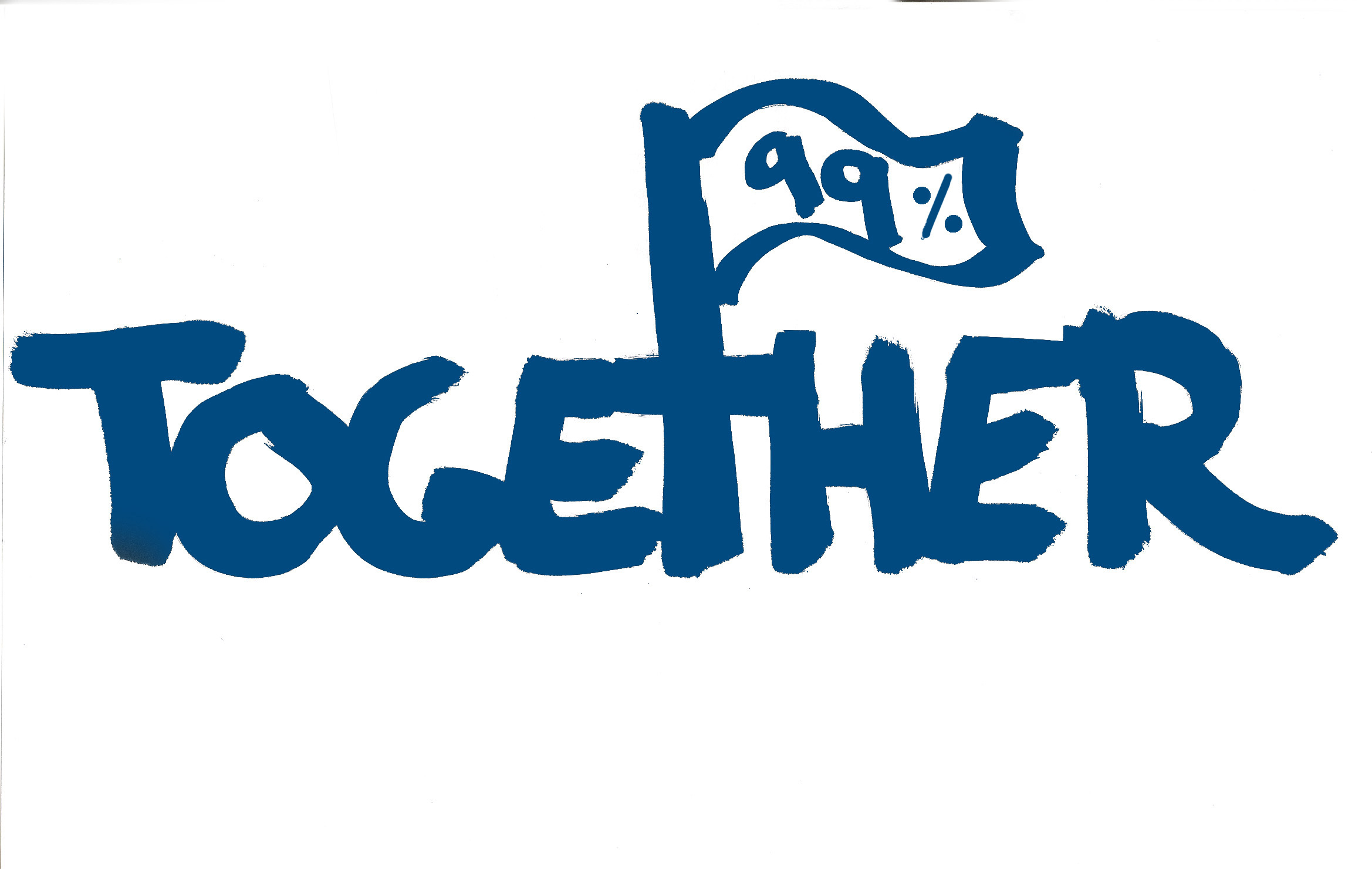 Occupy Wall Street Together. We are 99%. Poster.